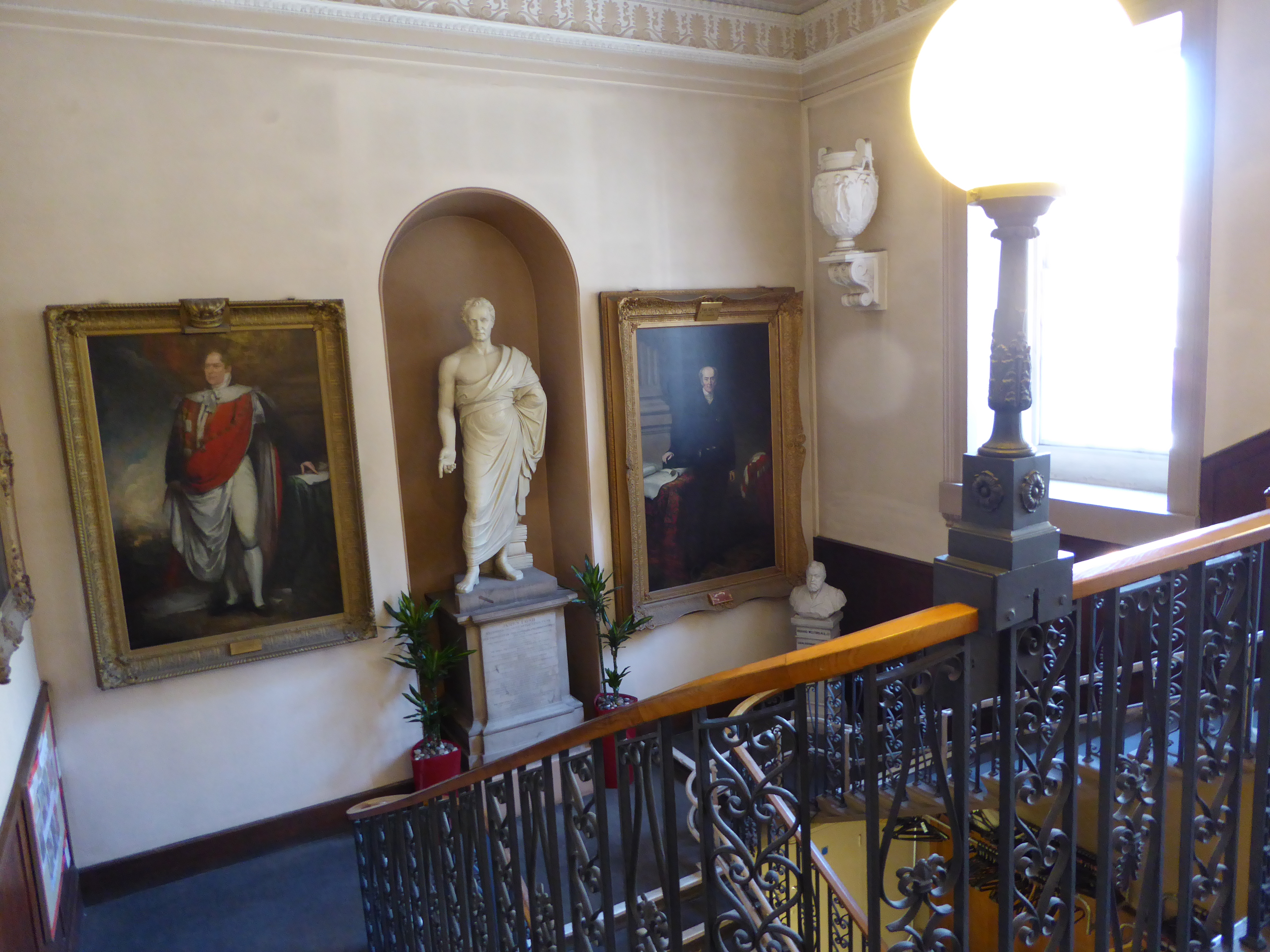 Literary and Philosophical Society building, Westgate Road, Newcastle upon Tyne, Tyne and Wear, England, June 2015. The statue is of James Losh, by John Graham Lough.